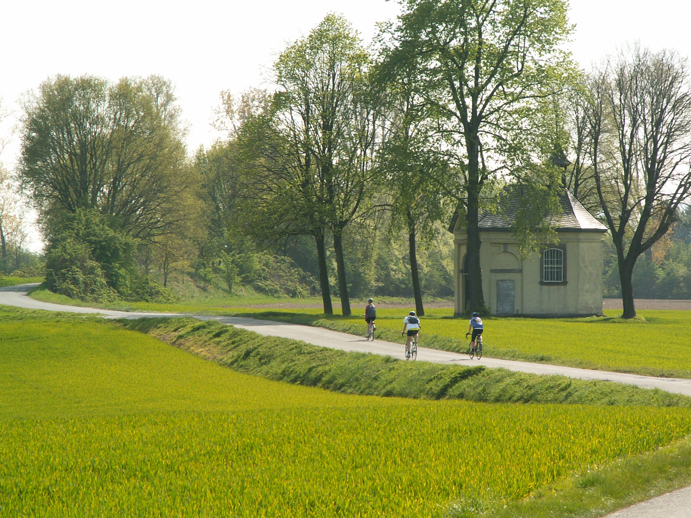 The chapel of the manor Horr near Grevenbroich-Neukirchen is located about 300 meters west of the manor house.